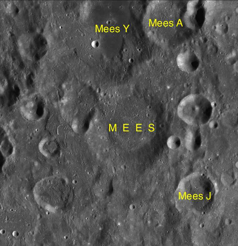 Part of the chart LAC-72 used for the presentation